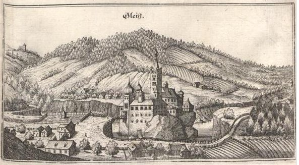 Castle Gleiss, Lower Austria (Engraving by Matthäus Merian)